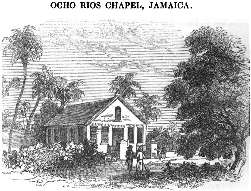 Ocho Rios Chapel, Jamaica (VII, p.80, July 1850)